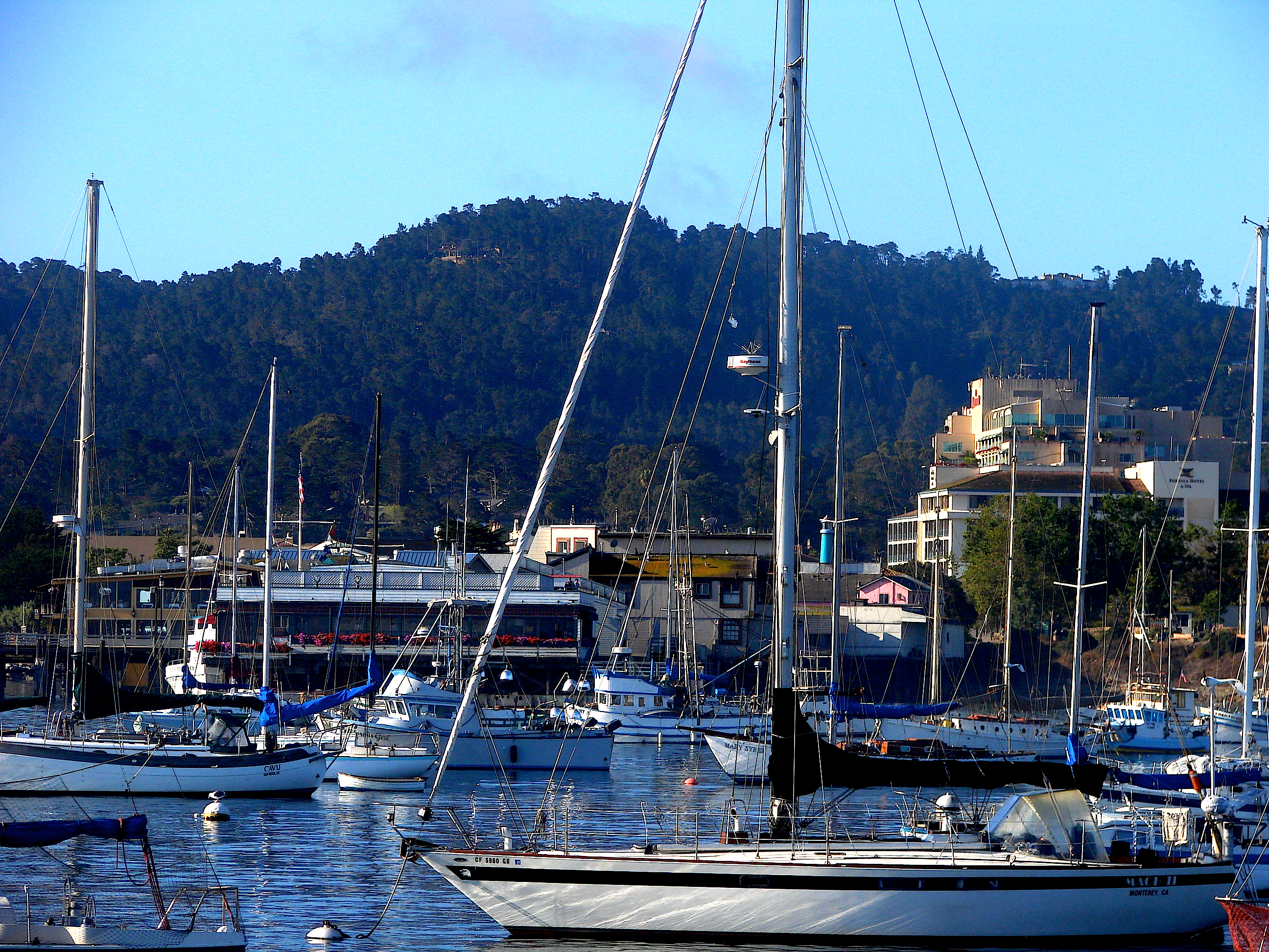 Downtown Monterey and Monterey Harbor as seen from the Coast Guard Peer, Monterey, CA